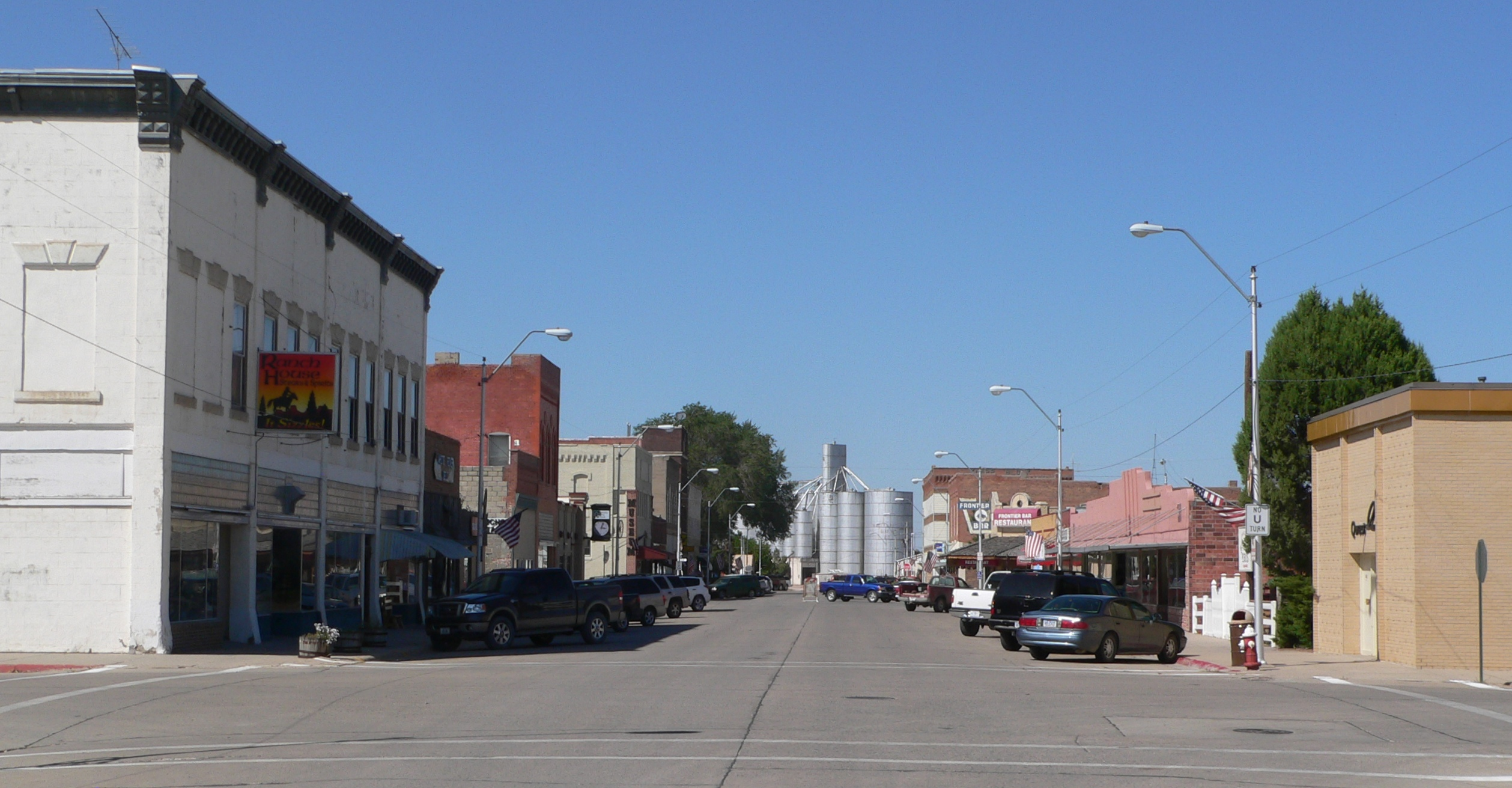 Downtown Crawford, Nebraska: 2nd Street, looking north from about Linn Street.